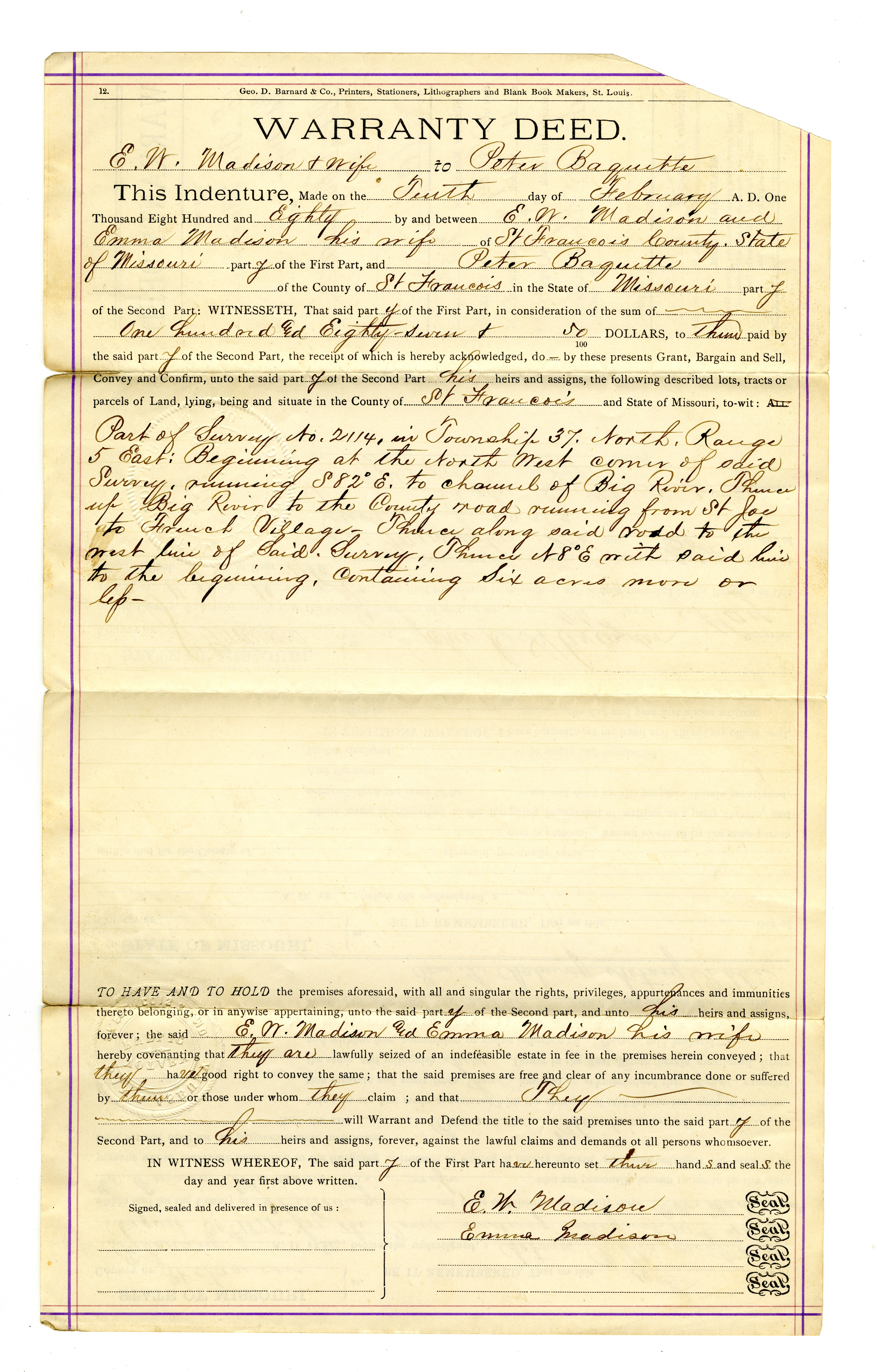 Purchase of land by Peter Bequette from E.W. Madison and wife Emma Madison for the sum of $187.50. Property transferred: six acres in St. Francois County (Survey 2114, Township 37N, Range 5E). Title: Warranty deed signed E.W. Madison and Emma Madison, St. Francois County, February 10, 1880